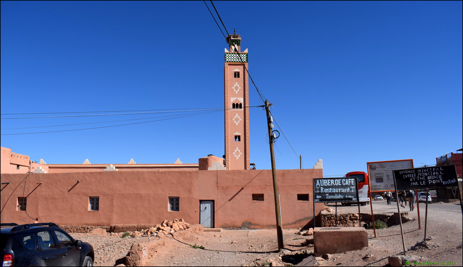 Mosque in the modern village of Aït Benhaddou (west side of the river).